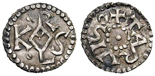 Carolingian Kingdom of Italy. Charlemagne. 768-814. AR Denier or Denaro (1.27 g). 771-793/4. Treviso mint. KRLS around O represented by central lozenge, chevron in lozenge representing A; two pellets in fields +TARVISO around central rosette. Depeyrot 1079b; M&G 216; MEC -; Prou 911 var. (legend, ornaments). Toned, good VF, thin flan crack barely visible. Rare. Treviso was exceptional in using Charlemagne's actual signature monogram for the obverse design of its deniers. All other mints of the class 2 period used CARO LVS in two lines. Charles, once he had consolidated his empire and imposed his single currency, summoned to his court clerical intellectuals from all over Europe such as the Anglo-Saxon Alcuin in 782, the Lombard Paul the Deacon and the Hispano-Visigoth Theodulf. Pope Hadrian did not shrink from coupling the sovereign’s name with the imperial Roman epitaph Magnus, which has been attached to it ever since. The road to the empire of the West was now open.